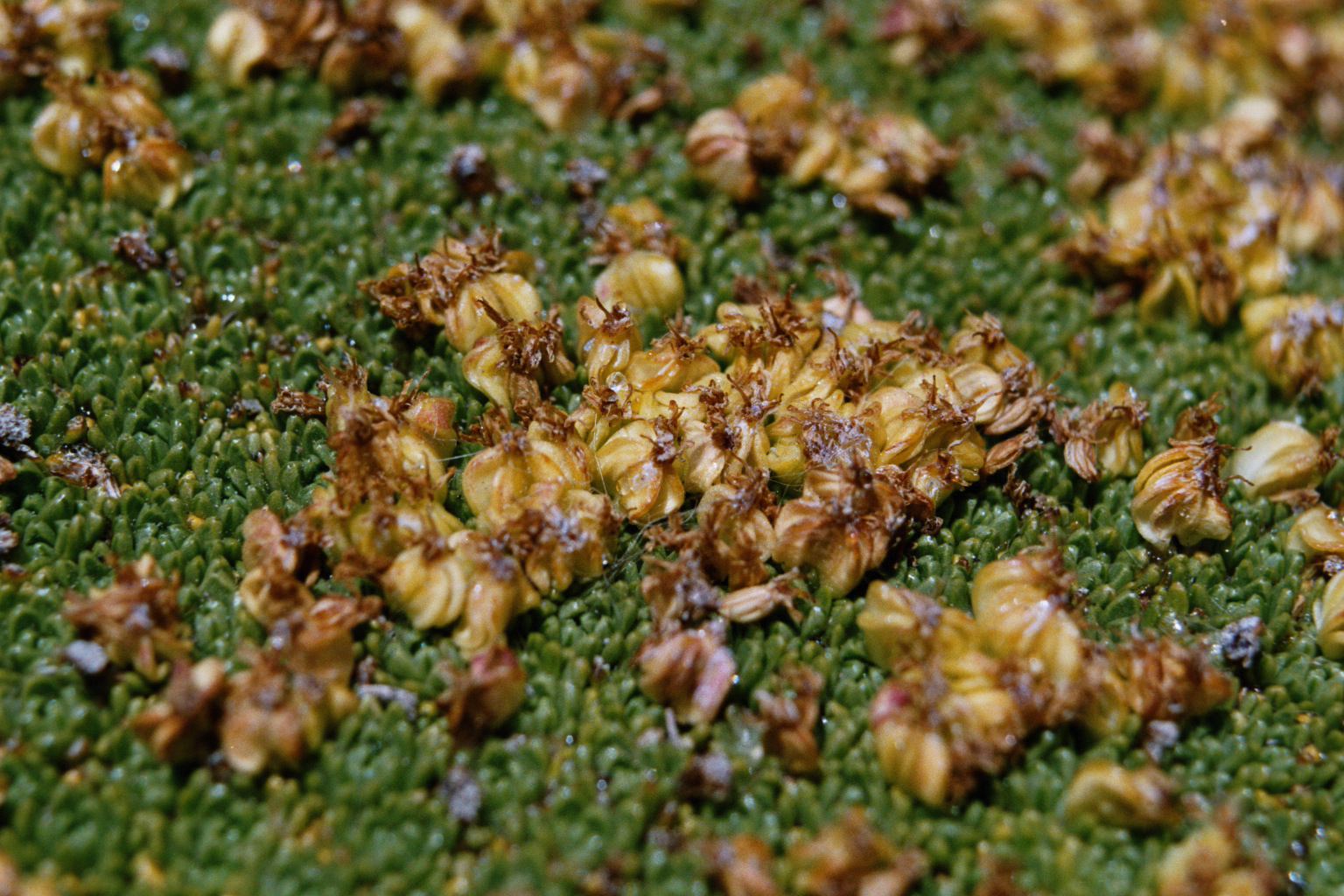 Azorella compacta (Yareta), close-up view